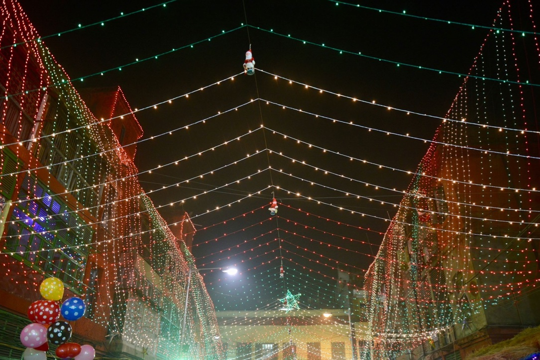 The decoration on the occasion of Christmas.